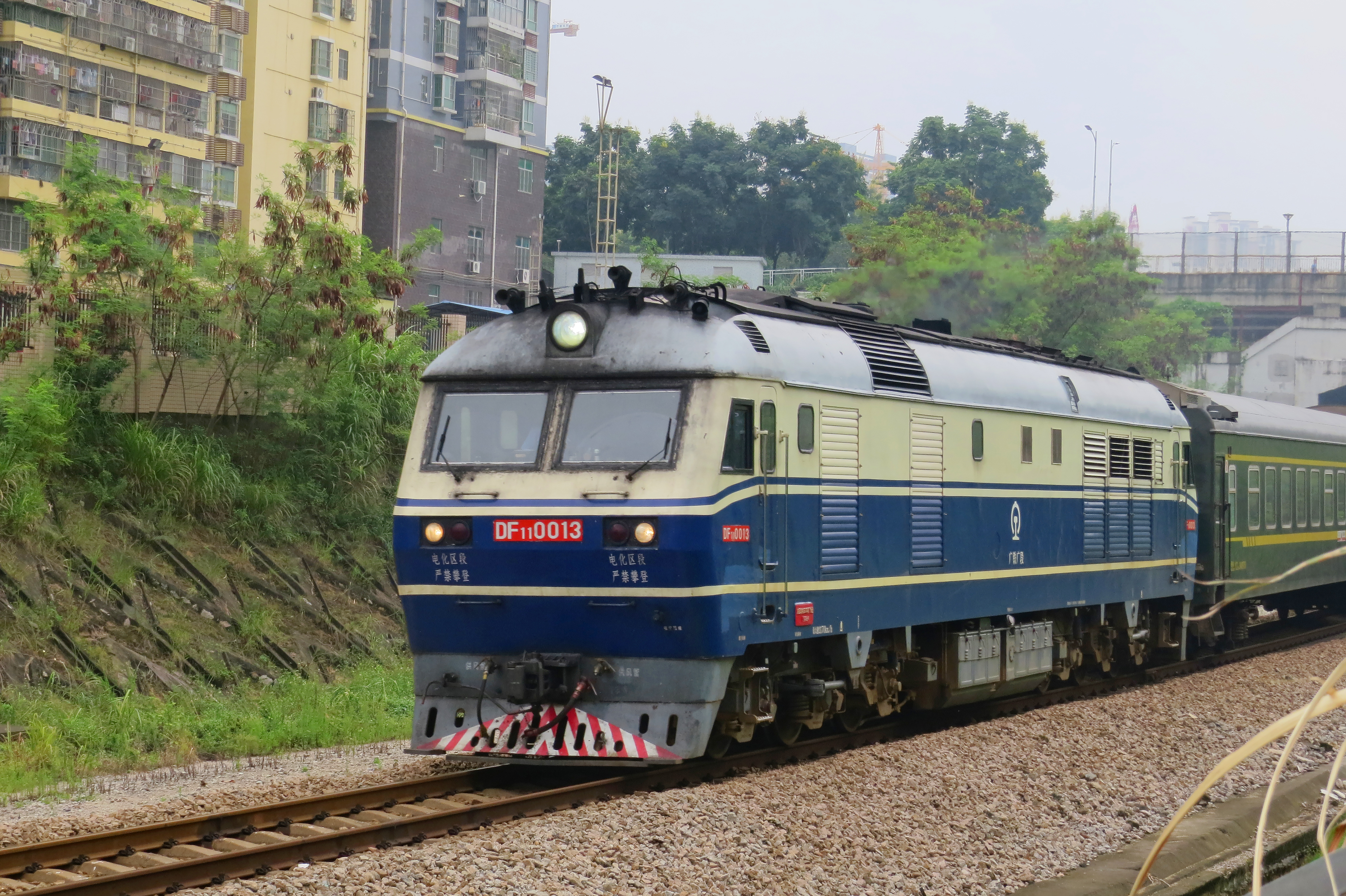 K9084 to Shaoyang, 20 minutes after departing Shenzhenxi Railway Station. I went to Zhangkeng (east of Shenzhenbei Railway Station) right after the closing ceremony of 20CRSC and the 9th China Youth Debate on Remote Sensing, where WHU won the first place and PKU won the runner-up. Throwing roses during the debate? Destined to be a classic, and this DF11 is a classic as well!